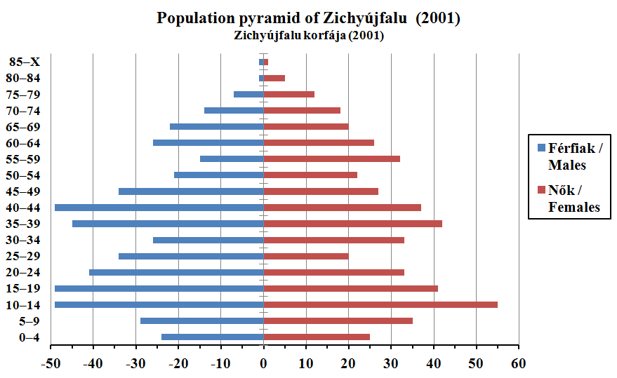 Population pyramid of Zichyújfalu, 2001. Reference of Datas: Hungarian Central Statistical Office